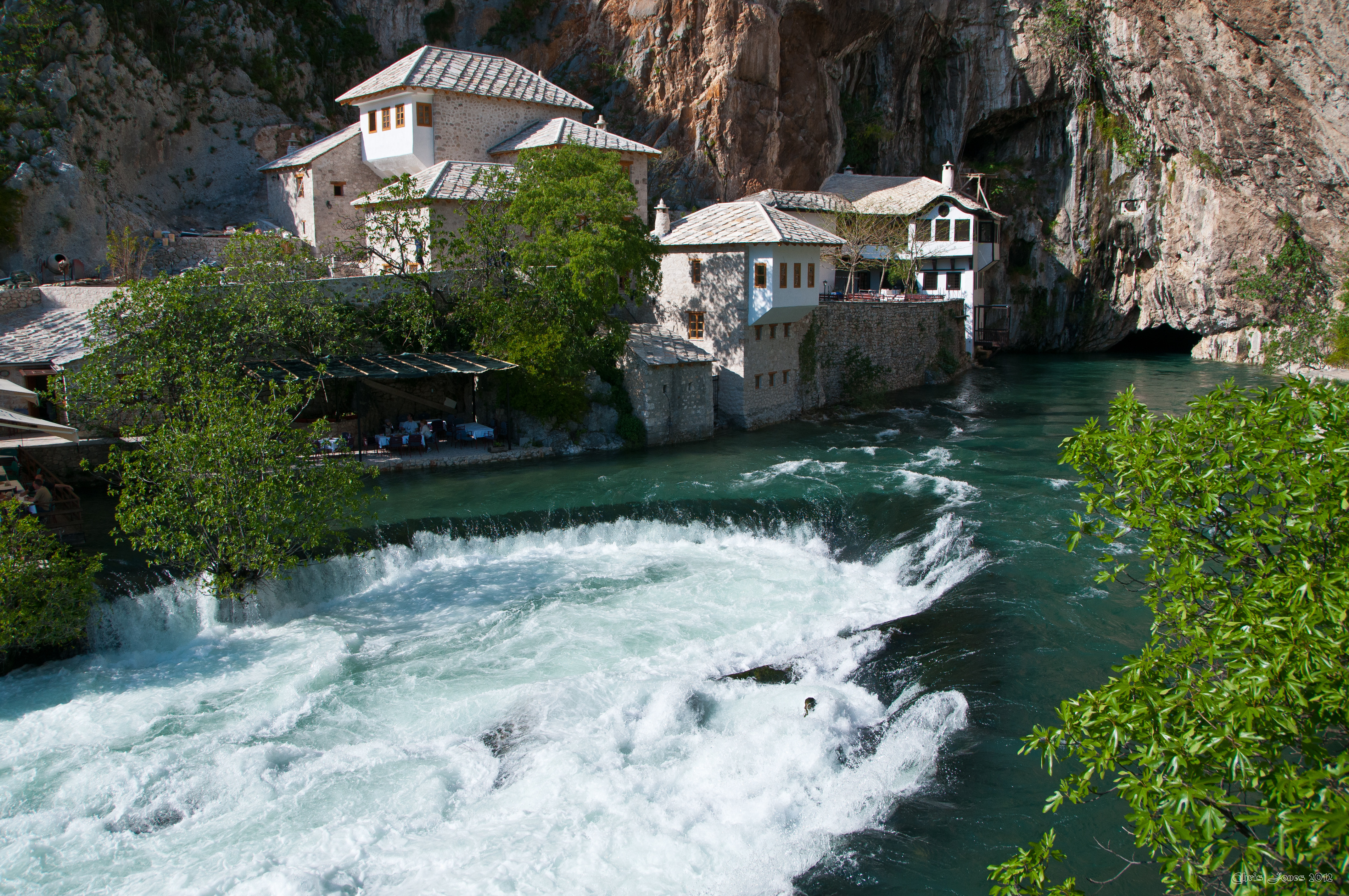 Mostar - Sufi House at Buna River spring